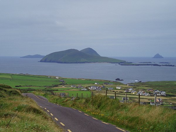 An Blascaod Mor (Great Blasket Island) A view from Mam Clasach across the fields and scattered dwellings in the Dun Chaoin area towards the Great Blasket Island. To the right in the distance is the small island of An Tiaracht (Tearaght Island) and to the left behind great Blasket Island is Inis Mhic Aoibhlean (Inishvickillane).